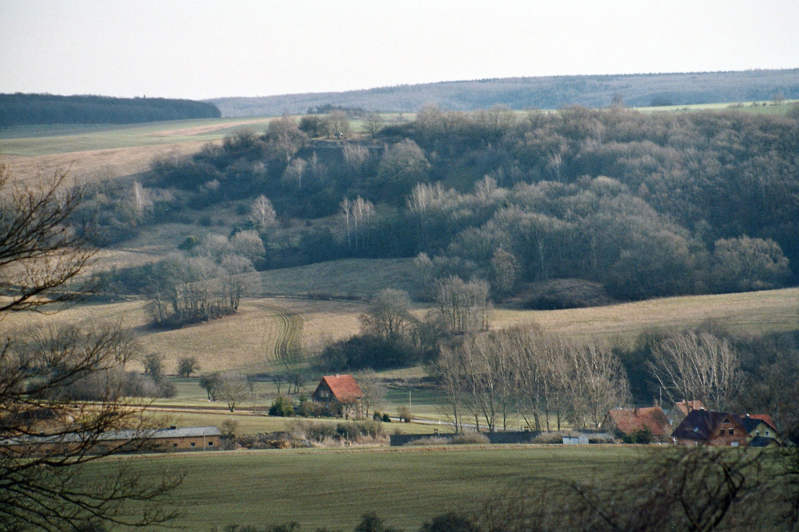 Foot hill landscape around Pölsfeld